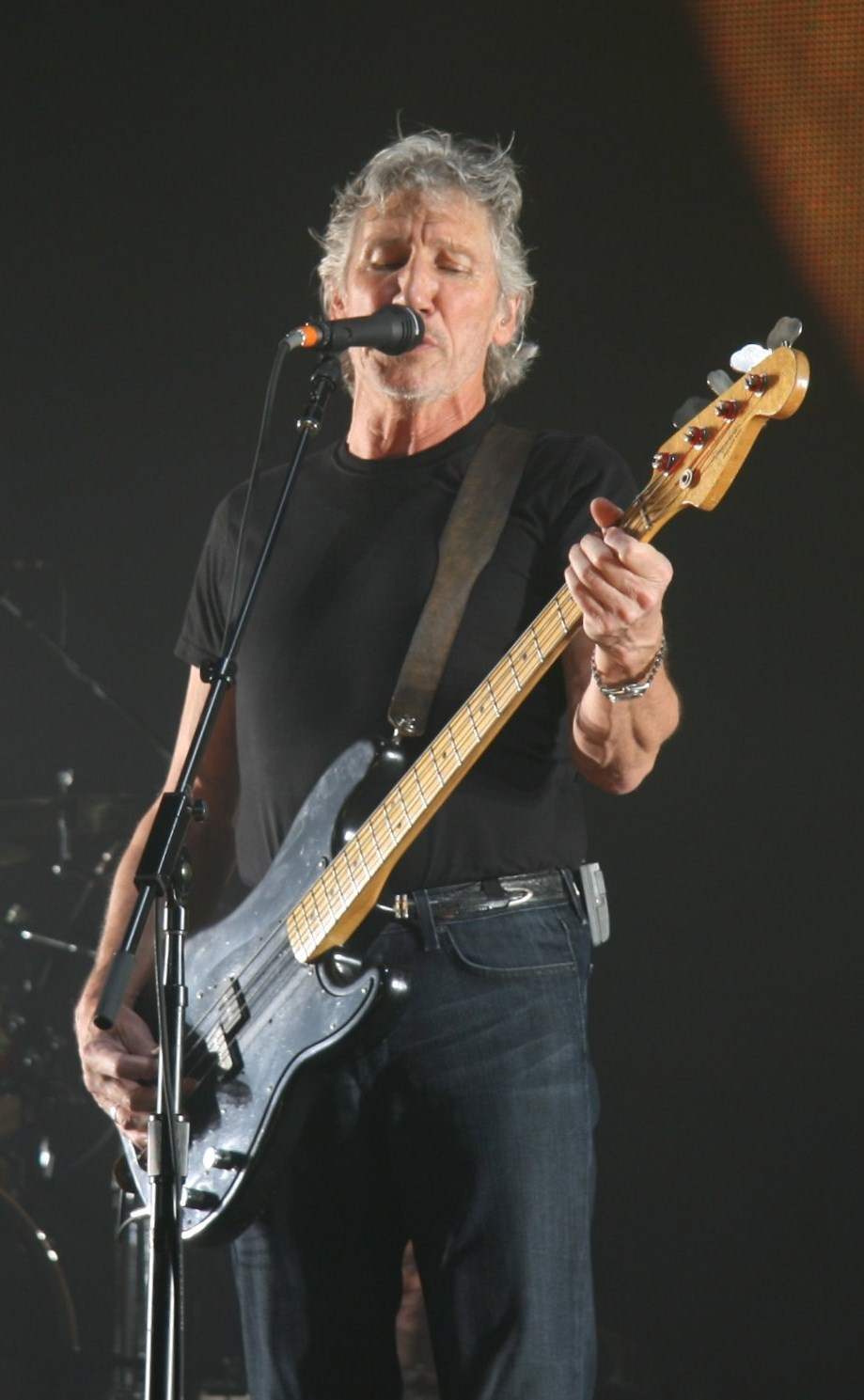 This image file, Roger Waters O2 Arena London 18 May 2008.